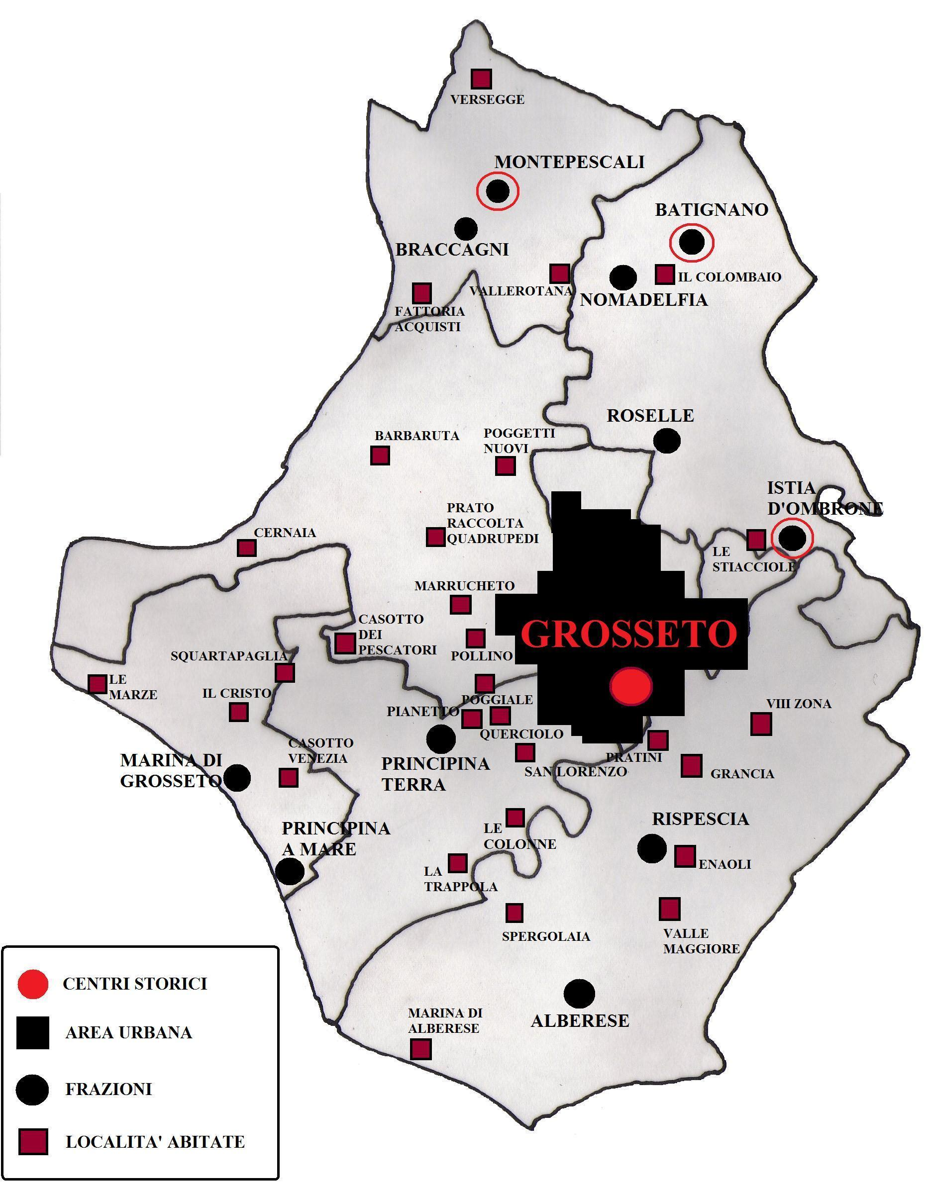 Administrative subdivision of the comune of Grosseto with the frazioni and località.